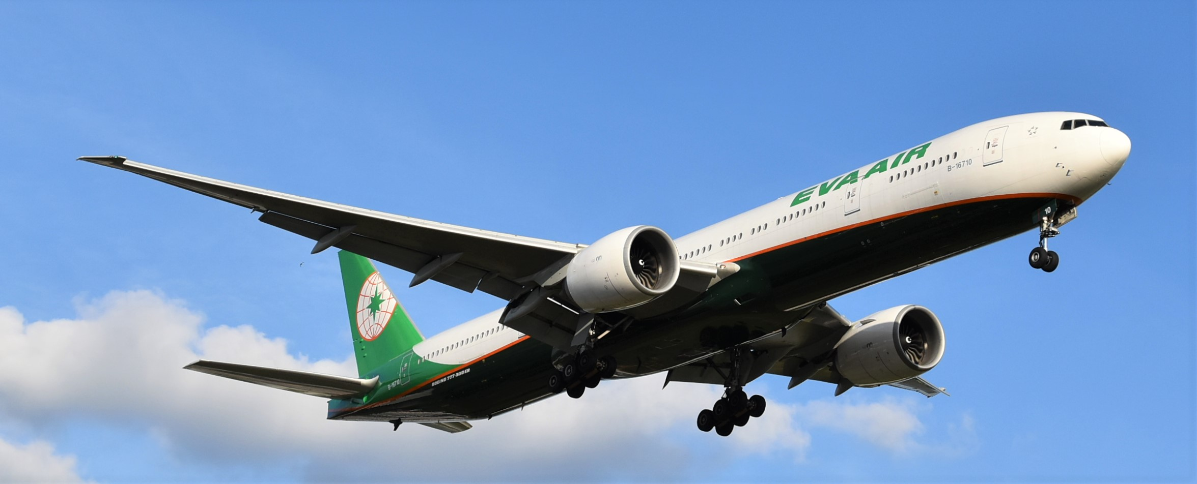 Boeing 777/3 of EVA Airways on final approach to rwy.27L at London Heathrow-LHR, 01/07/17.